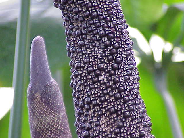 Species: Anthurium digitatum Family: Araceae Image No. 1